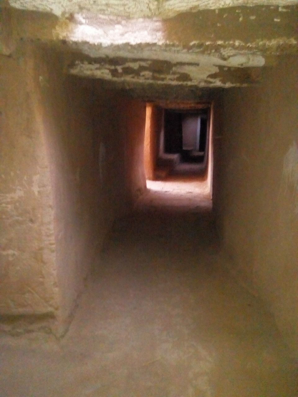 Alley in the old ksar of beni abbes in south west algeria